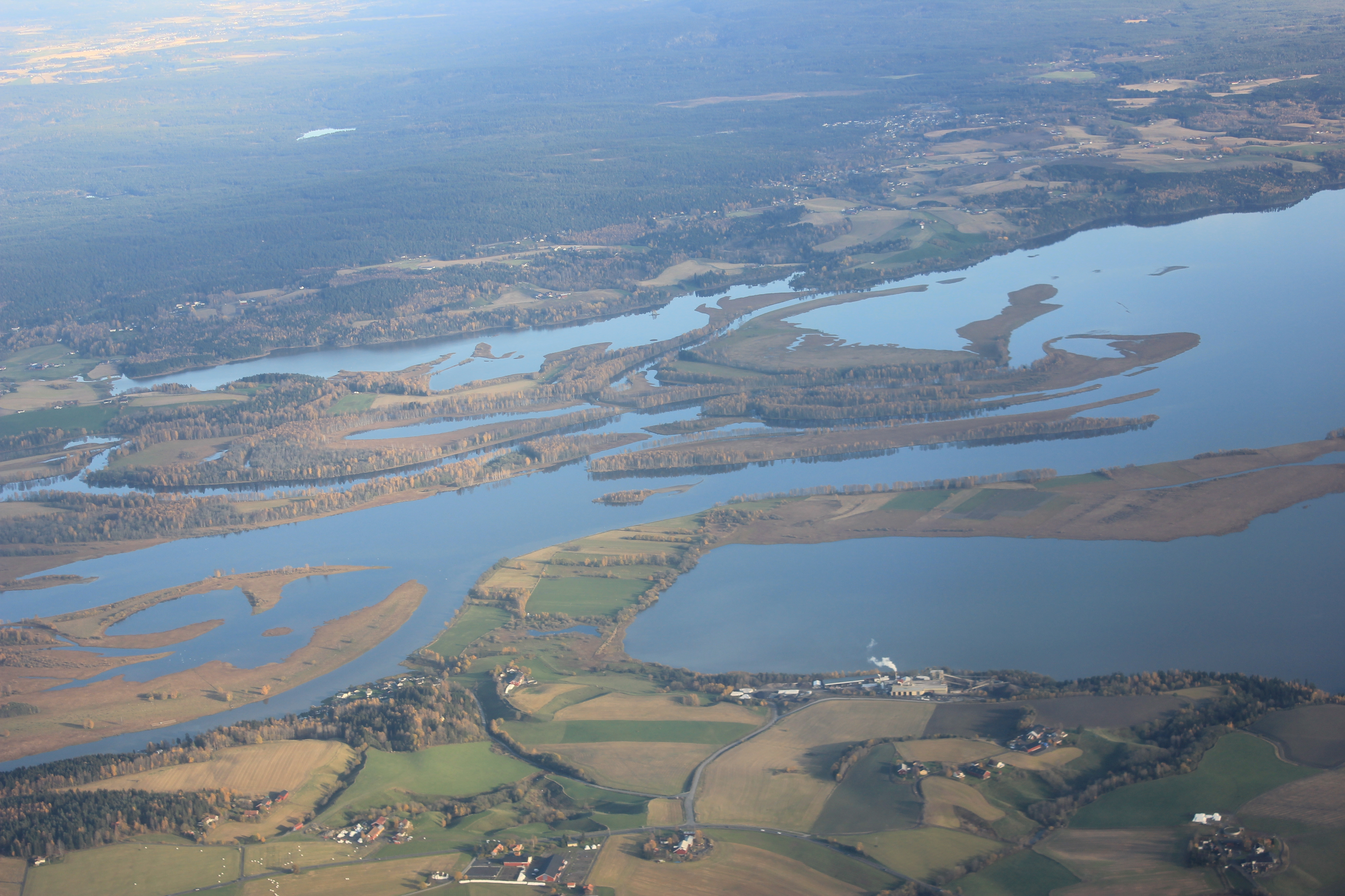 Øyeren - aerial view